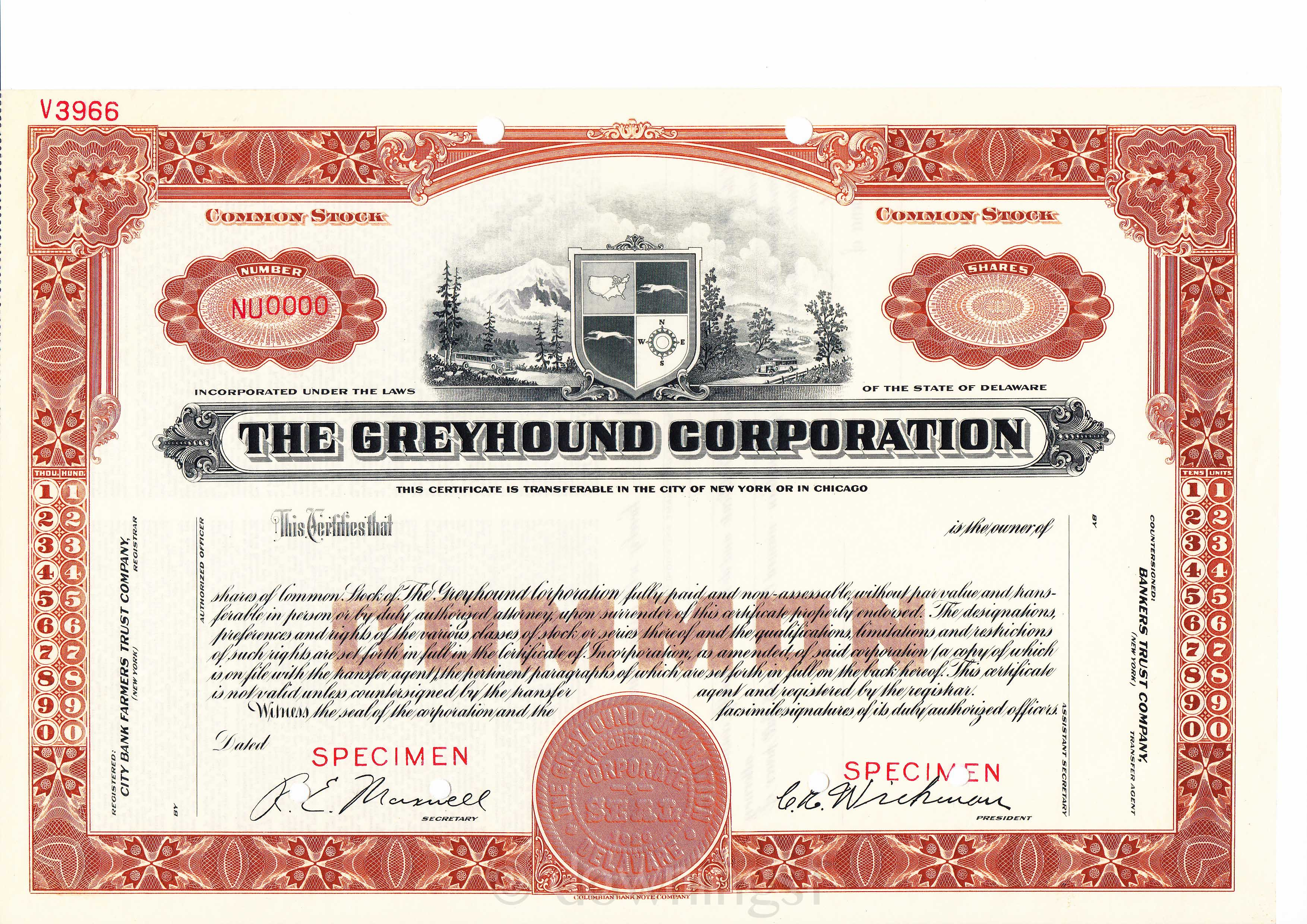 1936 Greyhound stock certificate #0000